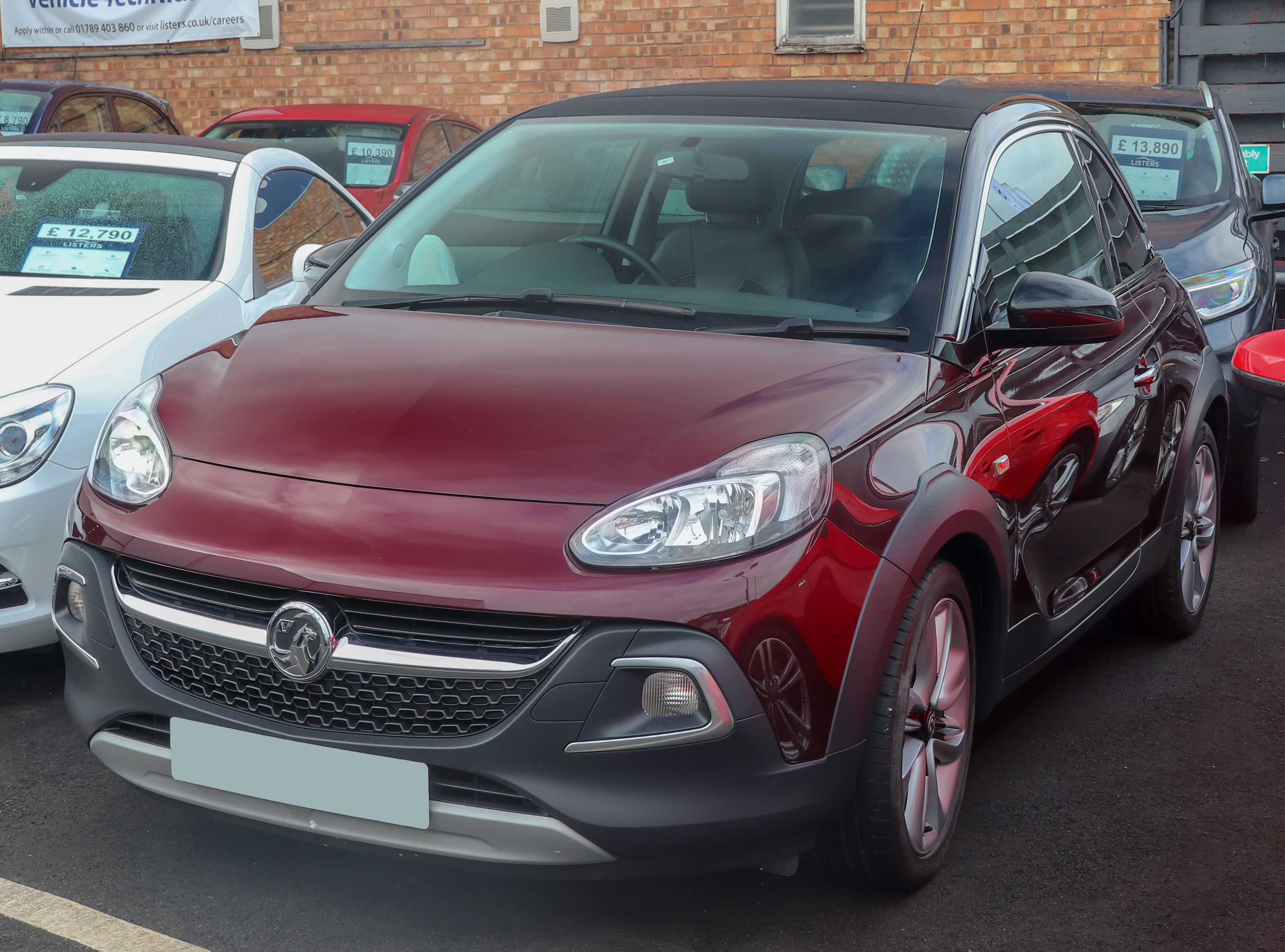 2015 Vauxhall Adam Rocks AIR 1.2 (These didn't sell very well and most likely will become a rare sight in the next 5 years. There about 2300 of the Rocks model left as compare to 50,000+ non-Rocks on the road.) Taken in Stratford-upon-Avon